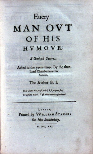 Title page of Every Man out of His Humour